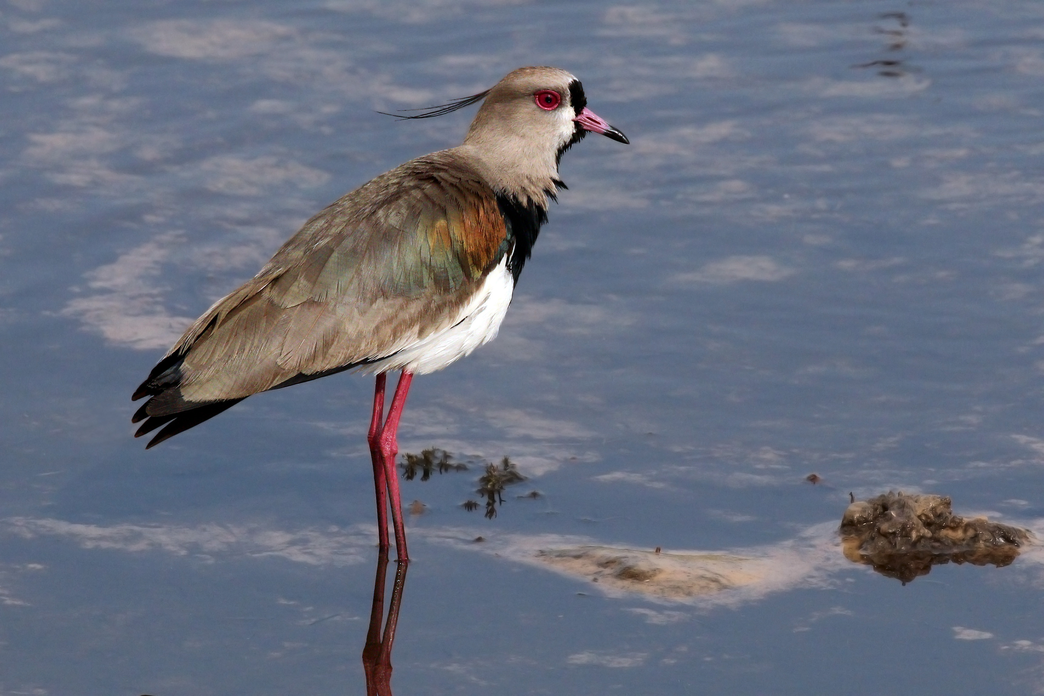 Southern lapwing (Vanellus chilensis lampronotus), the Pantanal, Brazil